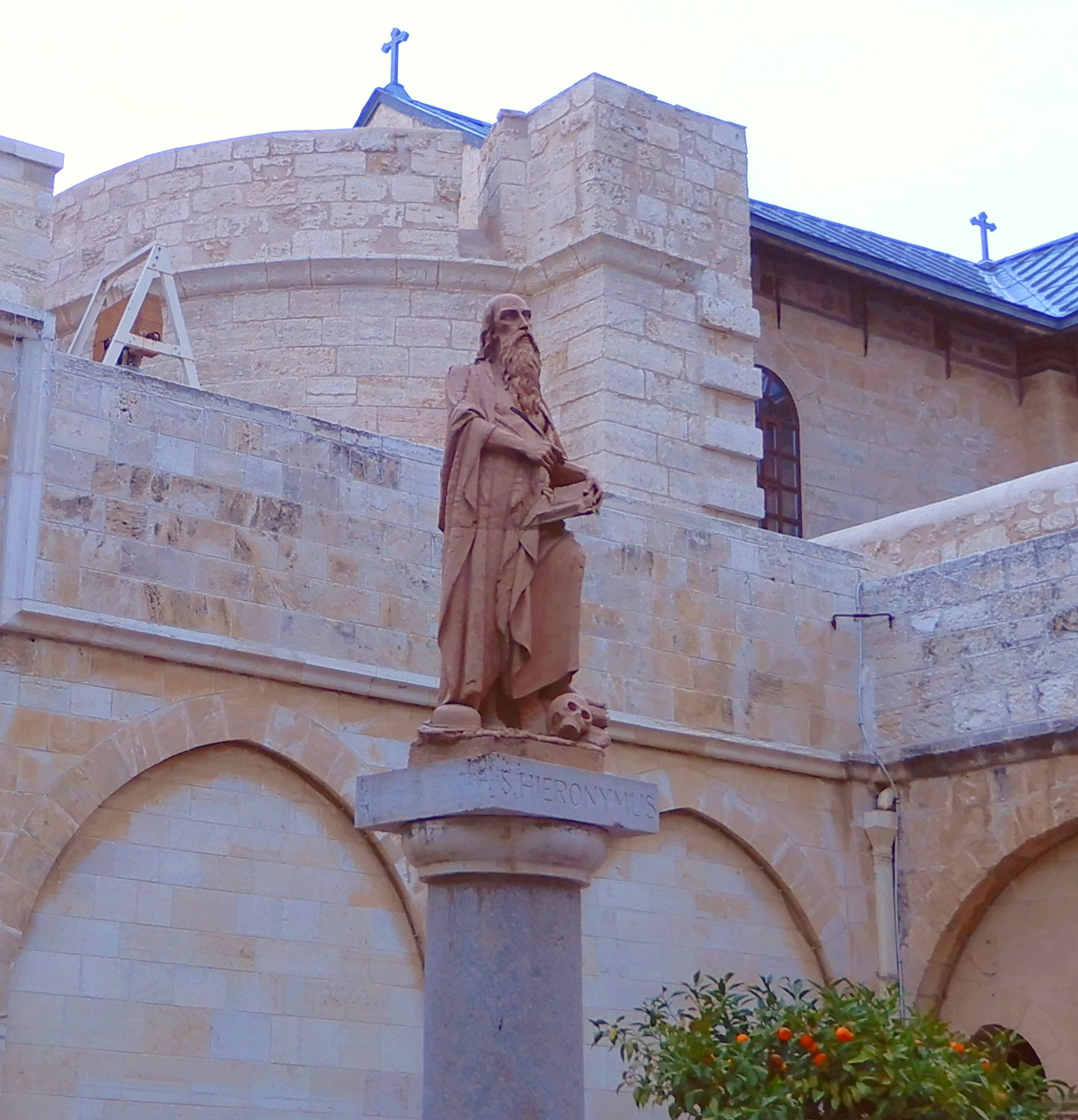 Statue of St. Hieronymus, Bethlehem, court of the Basilica of Nativity Jesus Christ